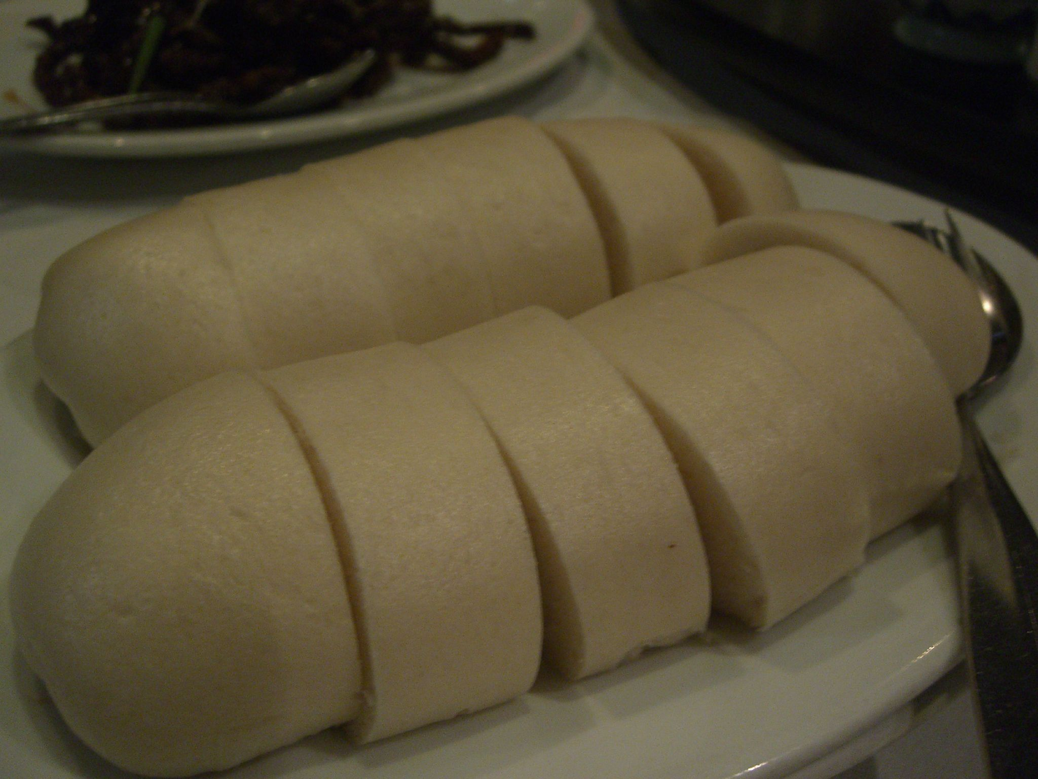 银丝卷 Steamed Silver Thread Buns Silver thread buns are named because of the noodle-like threads inside the buns, but I didn't see any threads inside these ones. 翠竹阁 Bamboo House Restaurant 47 Little Bourke St Melbourne 3000 (03) 9662 1565